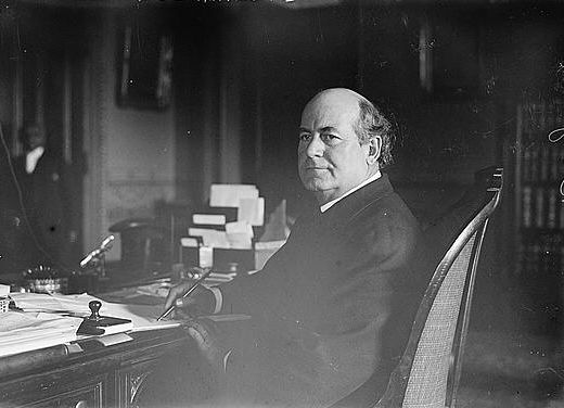 William Jennings Bryan, American lawyer, statesman and politician